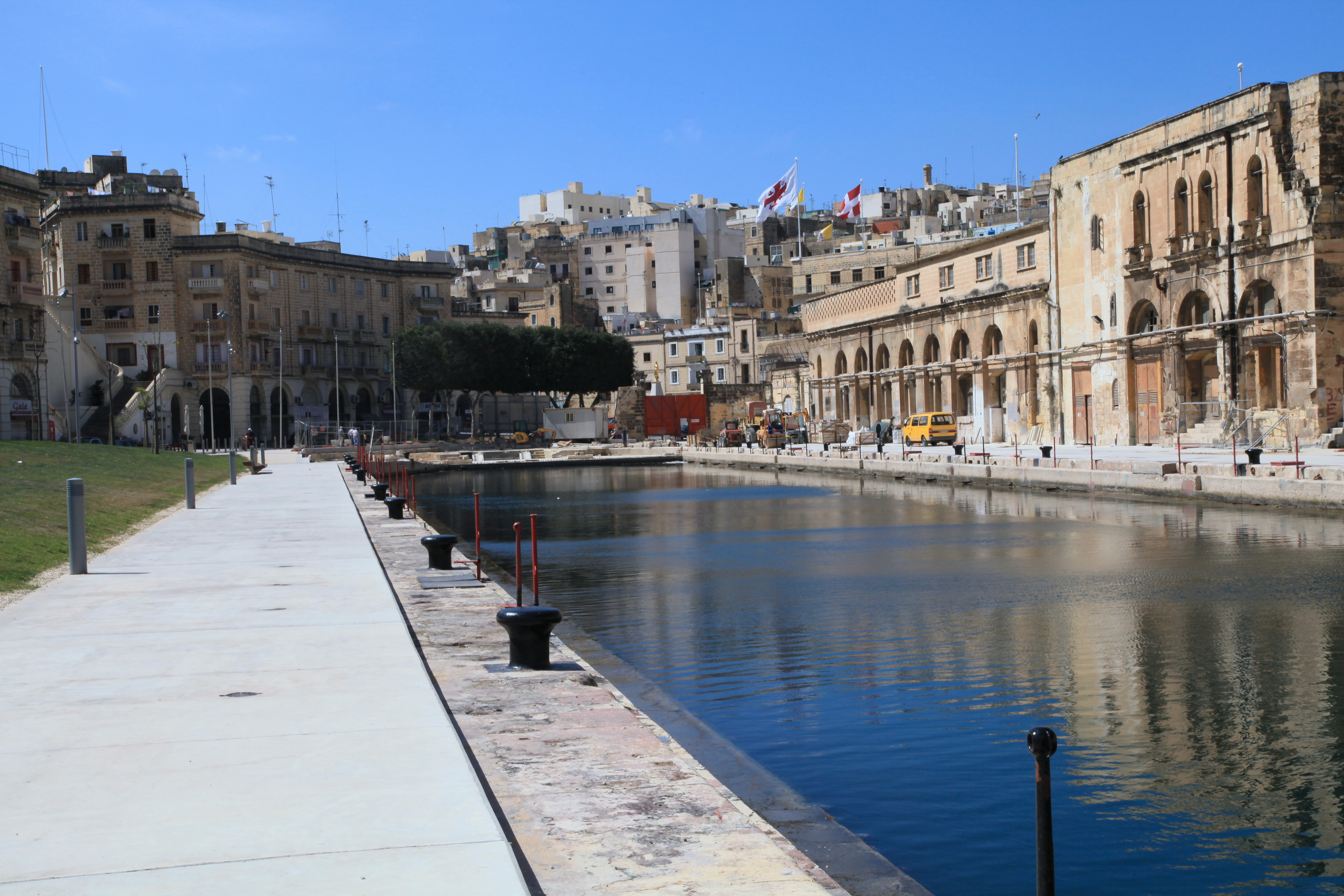 Grand Harbour Dock no. 1 at Ix-Xatt ta' Bormla in Cospicua, Malta